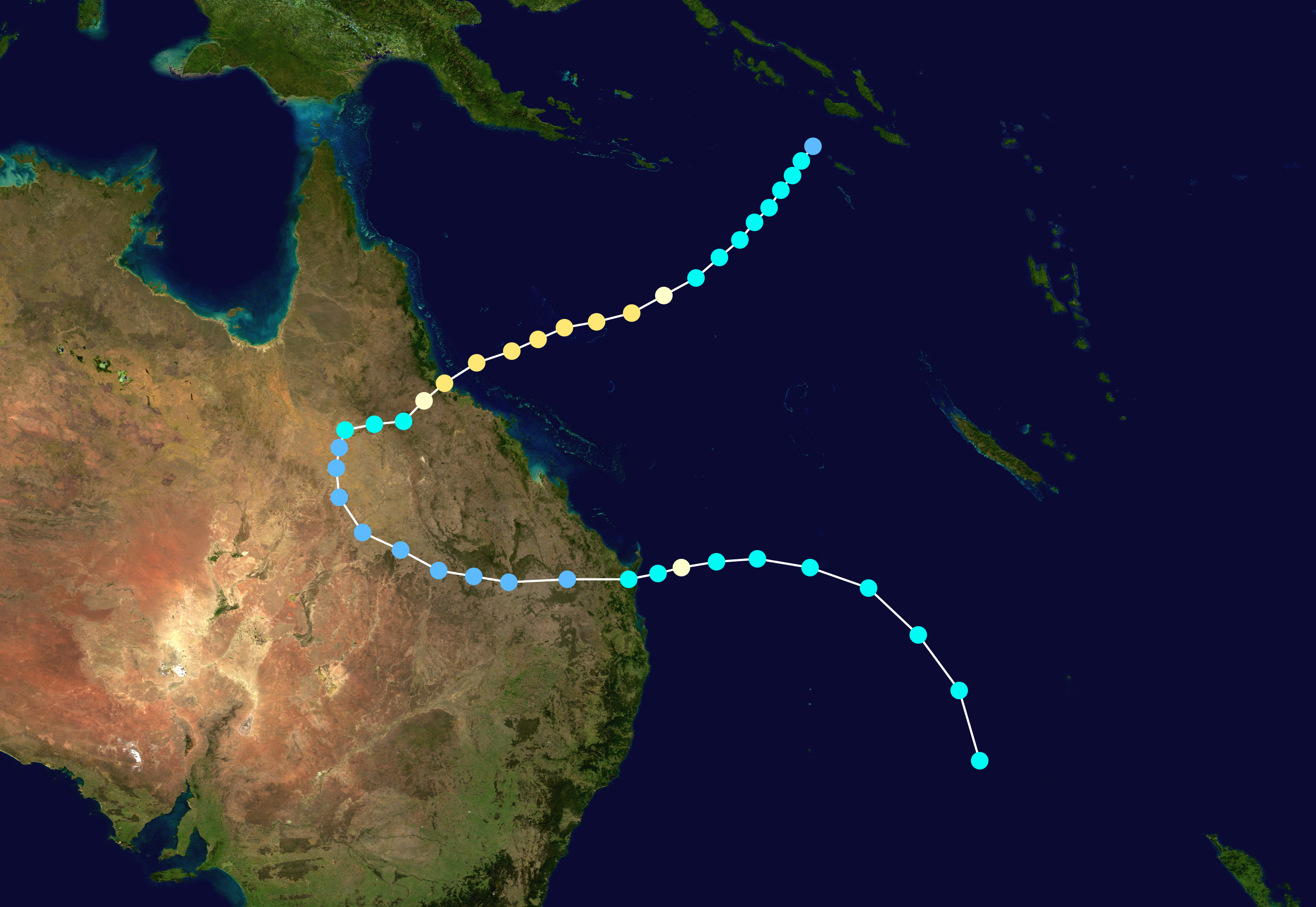 Cyclone Althea (1971) track. Uses the color scheme from the Saffir-Simpson Hurricane Scale. The points show the location of each storm at six-hour intervals. The colour represents the storm's maximum sustained wind speeds as classified in the Saffir-Simpson Hurricane Scale (see below), and the shape of the data points represent the nature of the storm. Saffir–Simpson scale Tropical depression≤38 mph≤62 km/h Category 3111–129 mph178–208 km/h Tropical storm39–73 mph63–118 km/h Category 4130–156 mph209–251 km/h Category 174–95 mph119–153 km/h Category 5≥157 mph≥252 km/h Category 296–110 mph154–177 km/h Unknown Storm type Tropical cyclone Subtropical cyclone Extratropical cyclone / Remnant low / Tropical disturbance